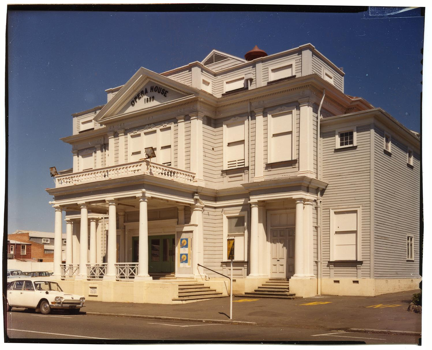 Whanganui, New Zealand opera house built in the weatherboard style. Photo from March 1967.